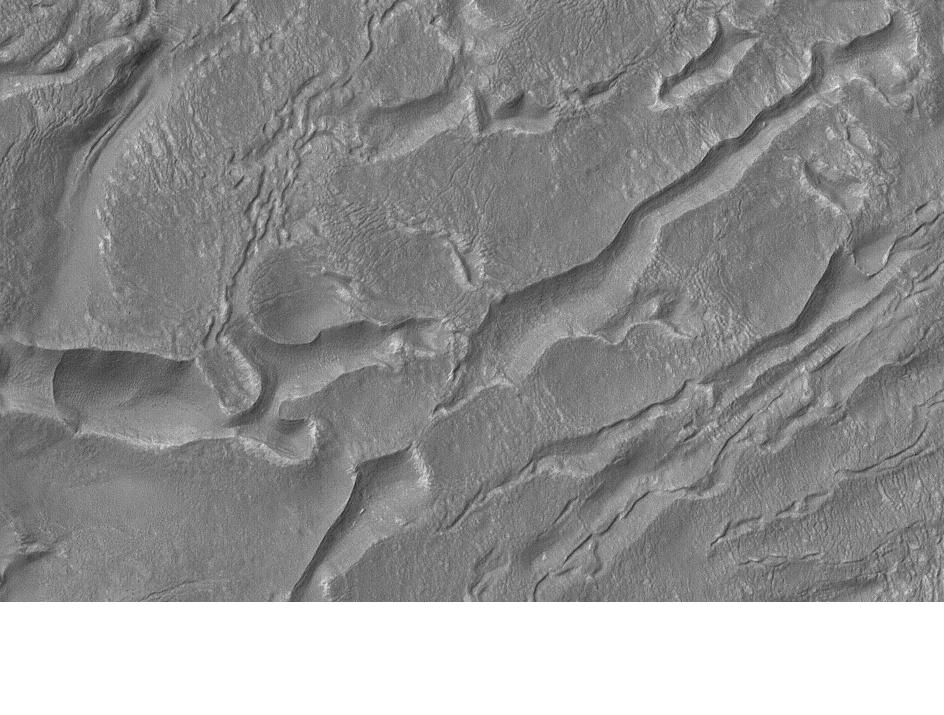 Banded terrain in Hellas from MOC S14-00459p.gif. This image was taken with the Mars Orbital Camera MOC) on the Mars Global Surveyor (MGS). The photo credit is Malin Space Science Systems/NASA.